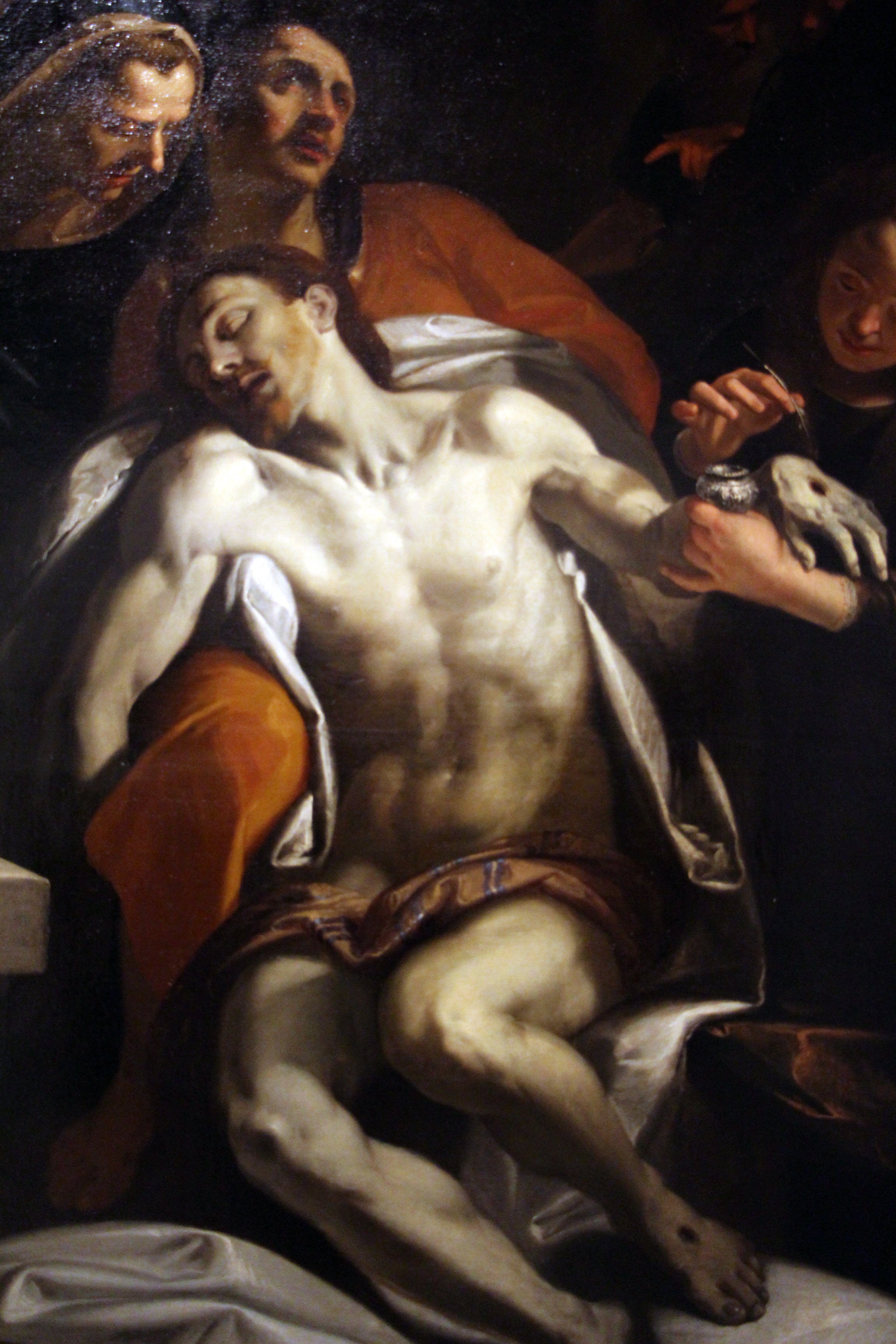 The Deposition